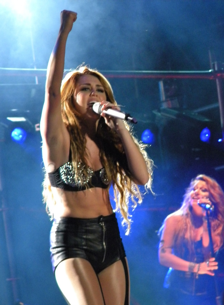 Pop singer Miley Cyrus performing in São Paulo, Brazil as part of her Gypsy Heart Tour in 2011.